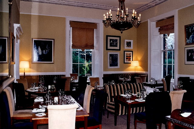 Killarney - Great Southern Hotel dining area